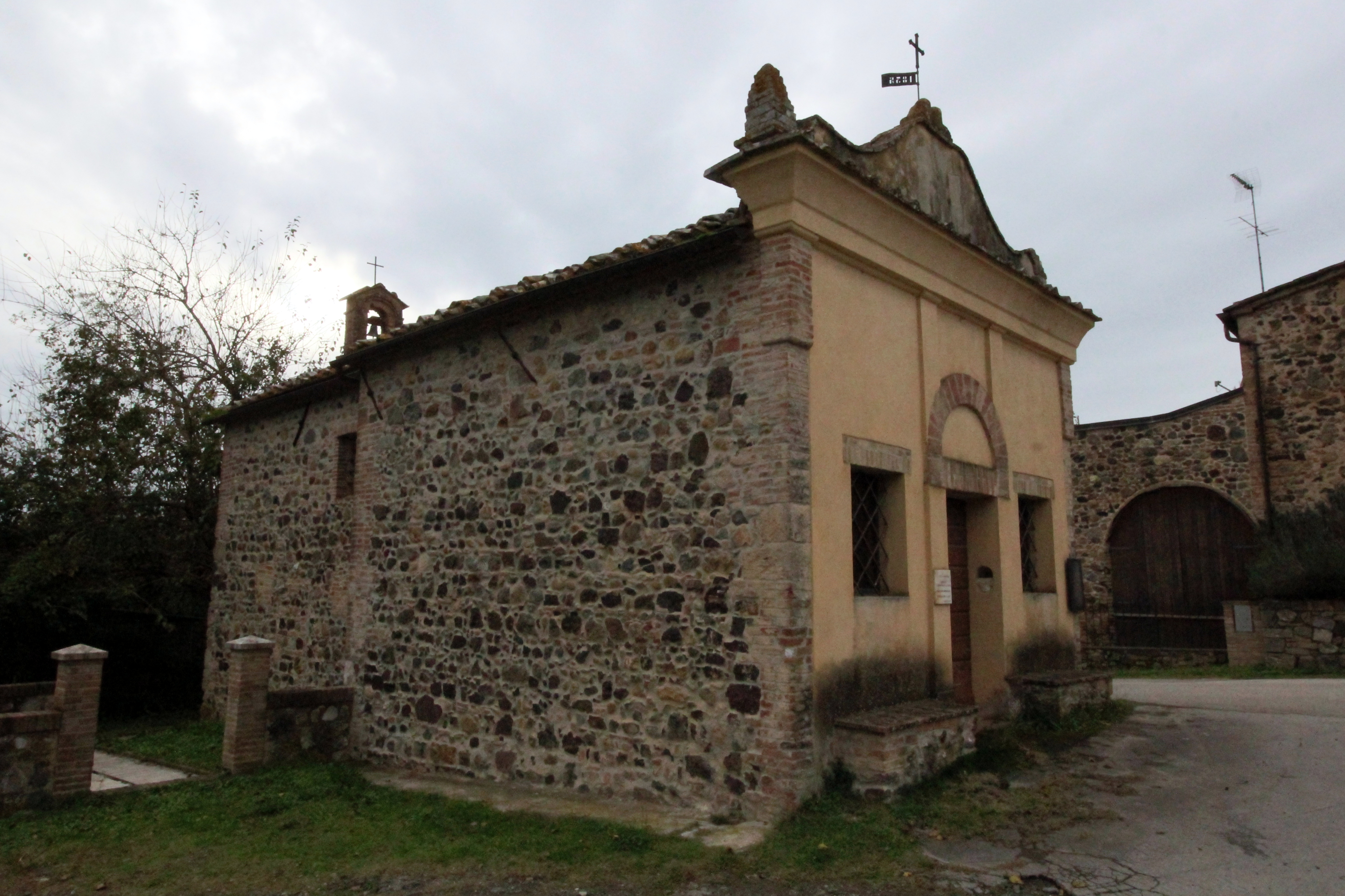 Church/Chapel Santa Maria Assunta, in La Befa, hamlet of Murlo, Province of Siena, Tuscany, Italy